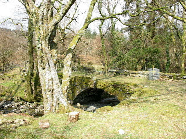 Bridle track bridge over Afon Meillionen, near to Beddgelert, Gwynedd, Wales. Meillionen is the Welsh word for 'clover'.